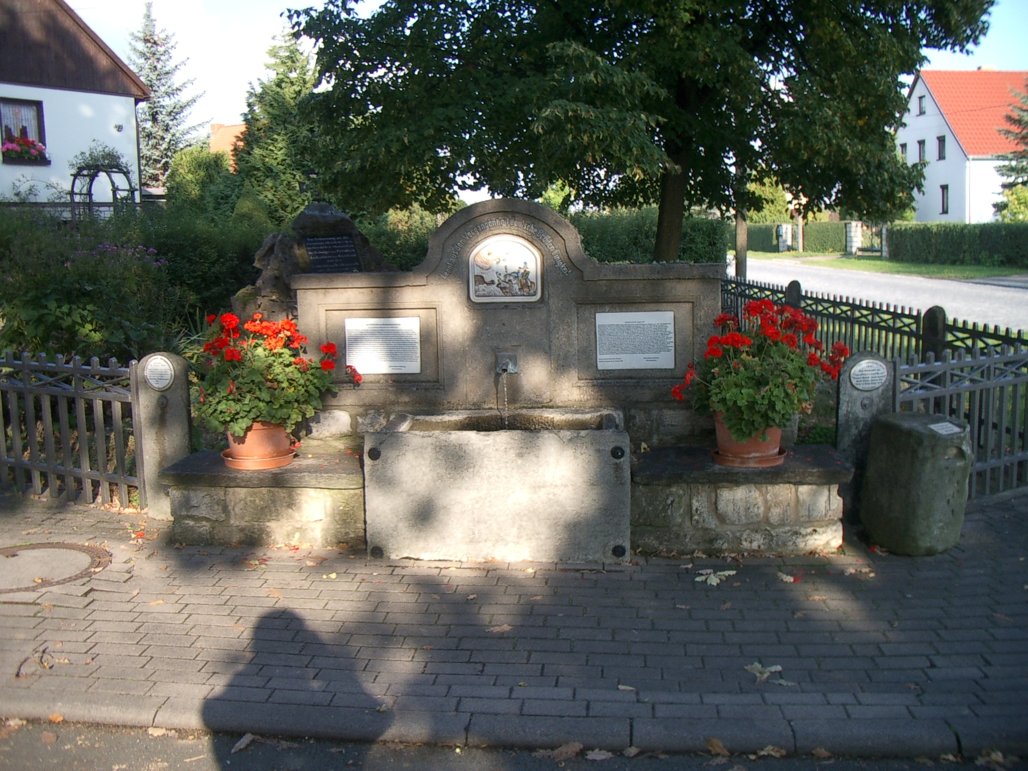 Dreimonarchen Monument in Dornheim (Thuringia)